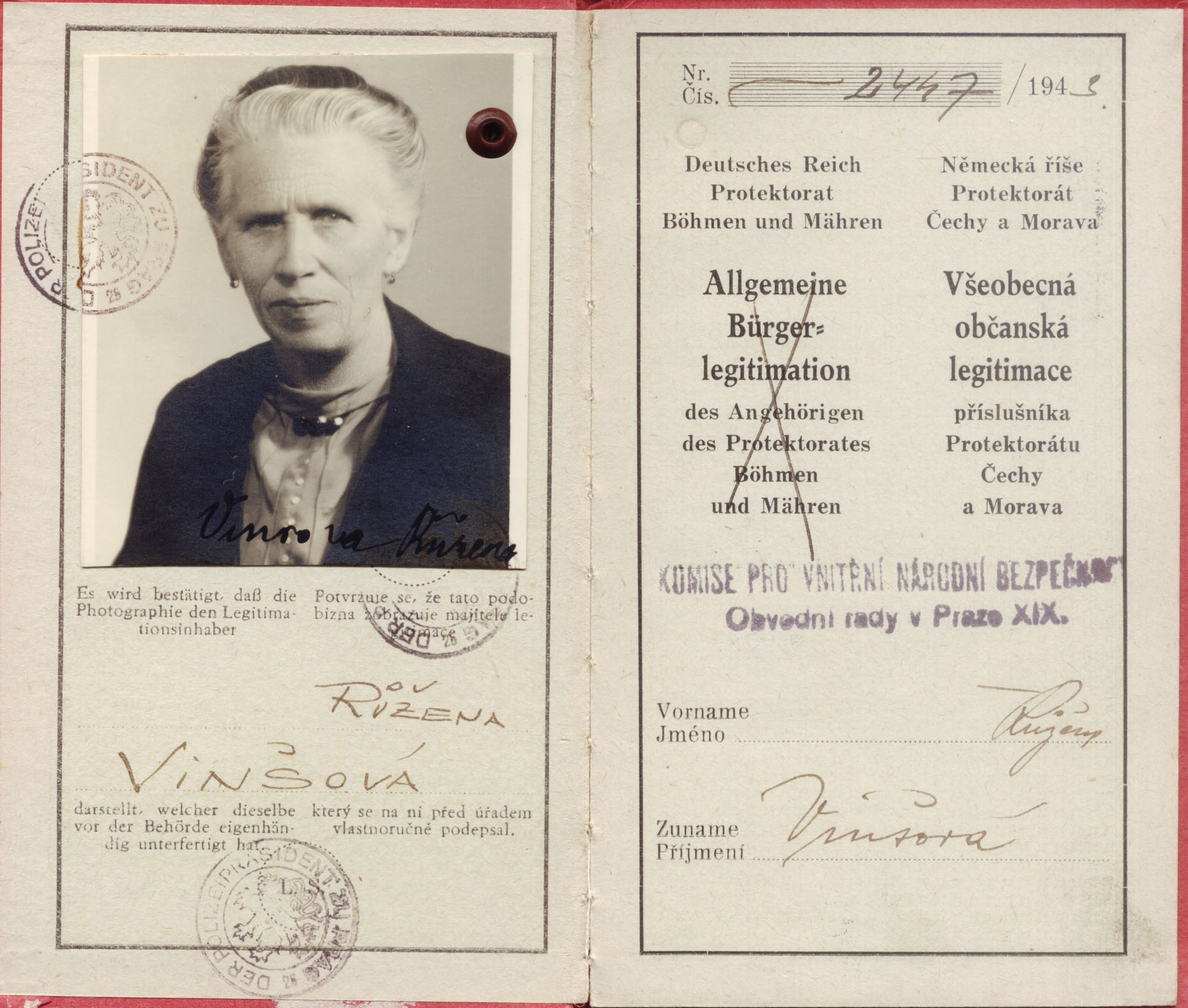 ID card in Protectorate of Bohemia and Moravia - 1943.